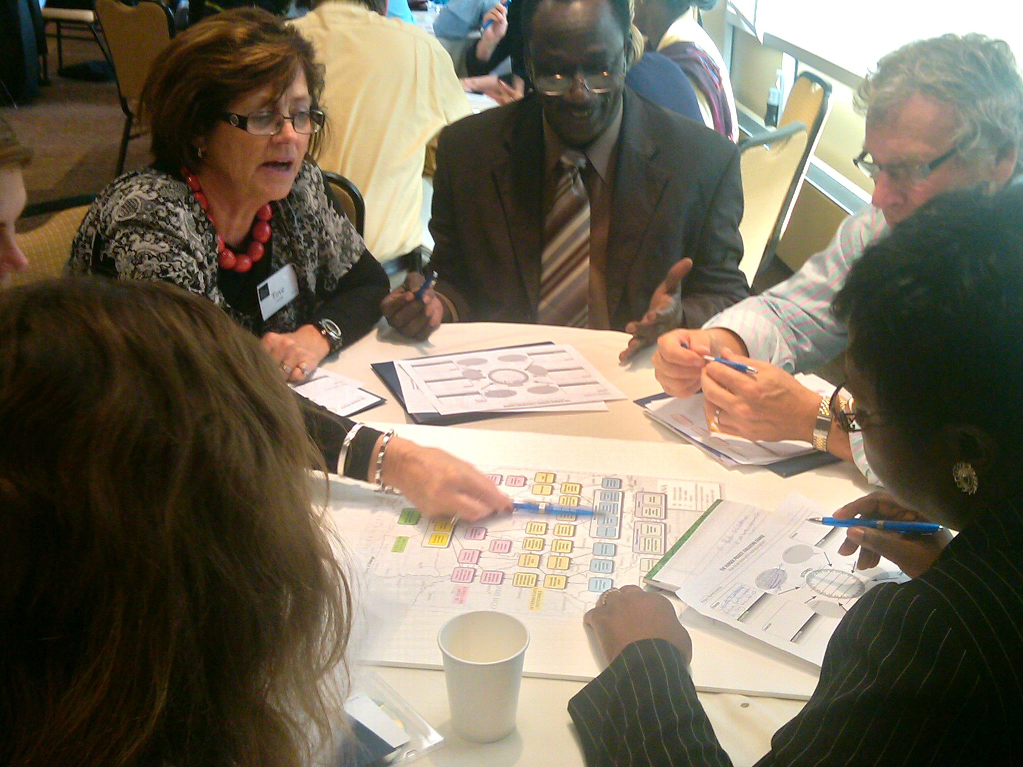 People at work creating their theory of change during a workshop run by ActKnowledge